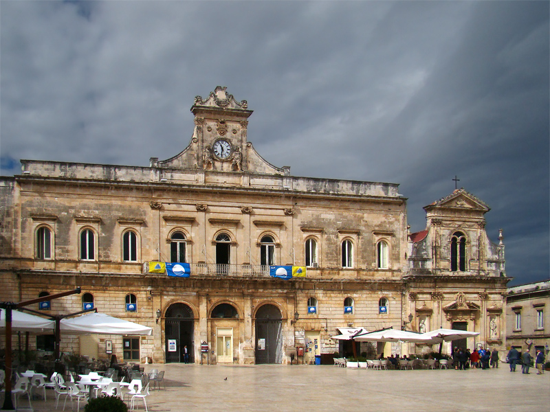 Piazza della Libertà, Ostuni, Apulia, Italy.